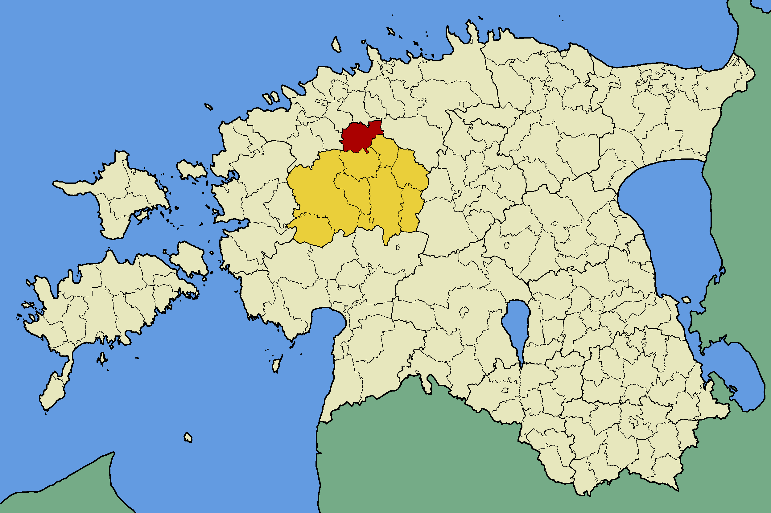 Map of Estonia with borders of municipalities (parishes). Rapla county and Kohila municipality emphasized.